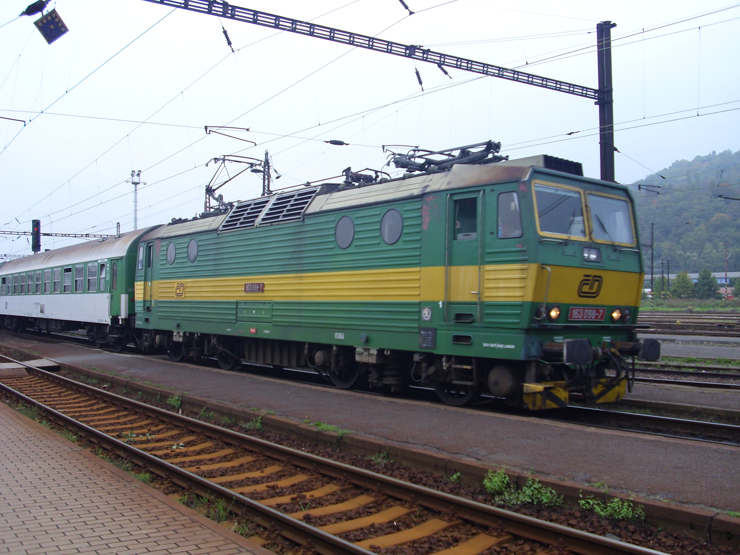 Electric locomotive class 163, concretely 163 098-7 of České dráhy (Czech railways), 2007-09-27